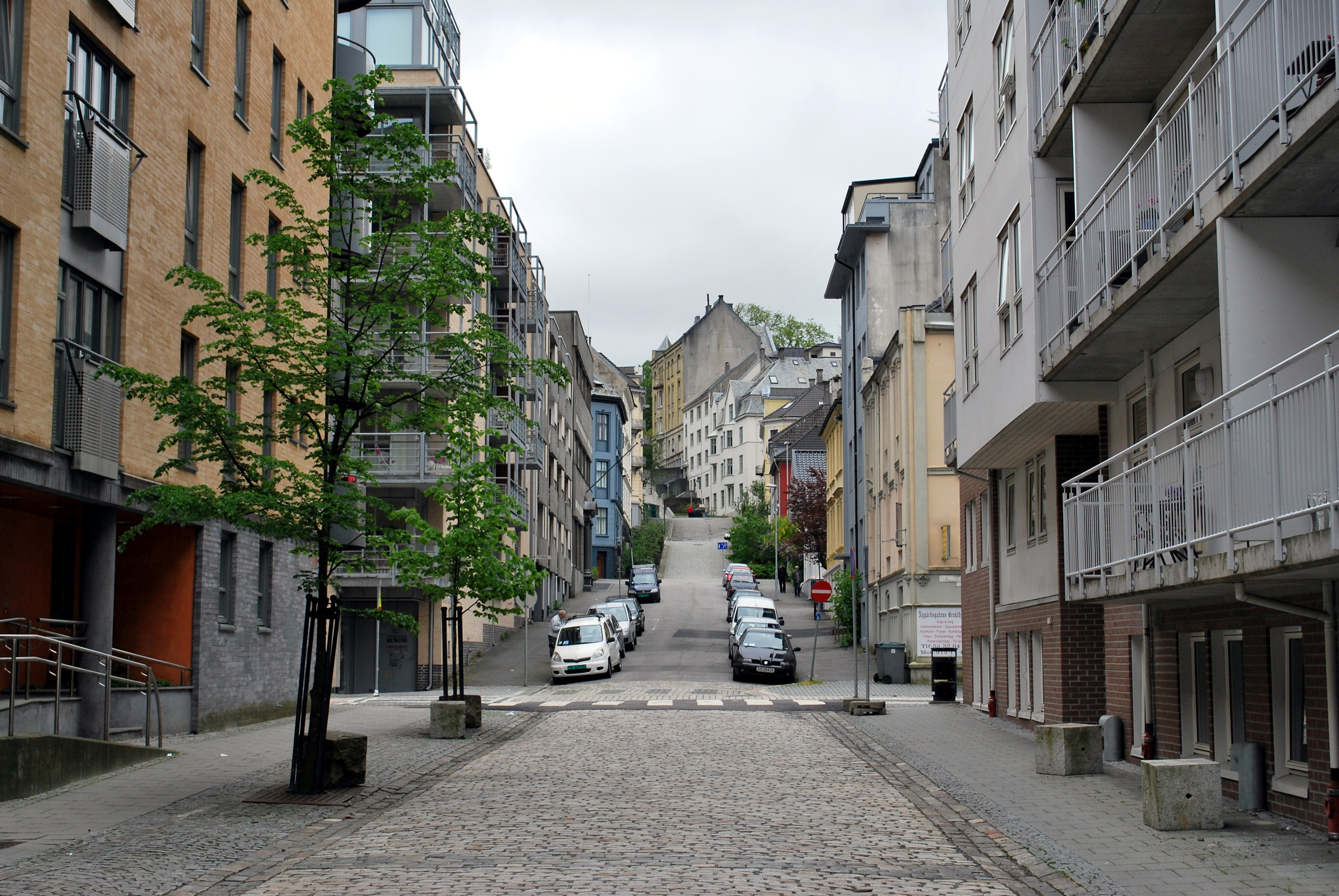 Jonas Reins gate, Bergen, Norway.